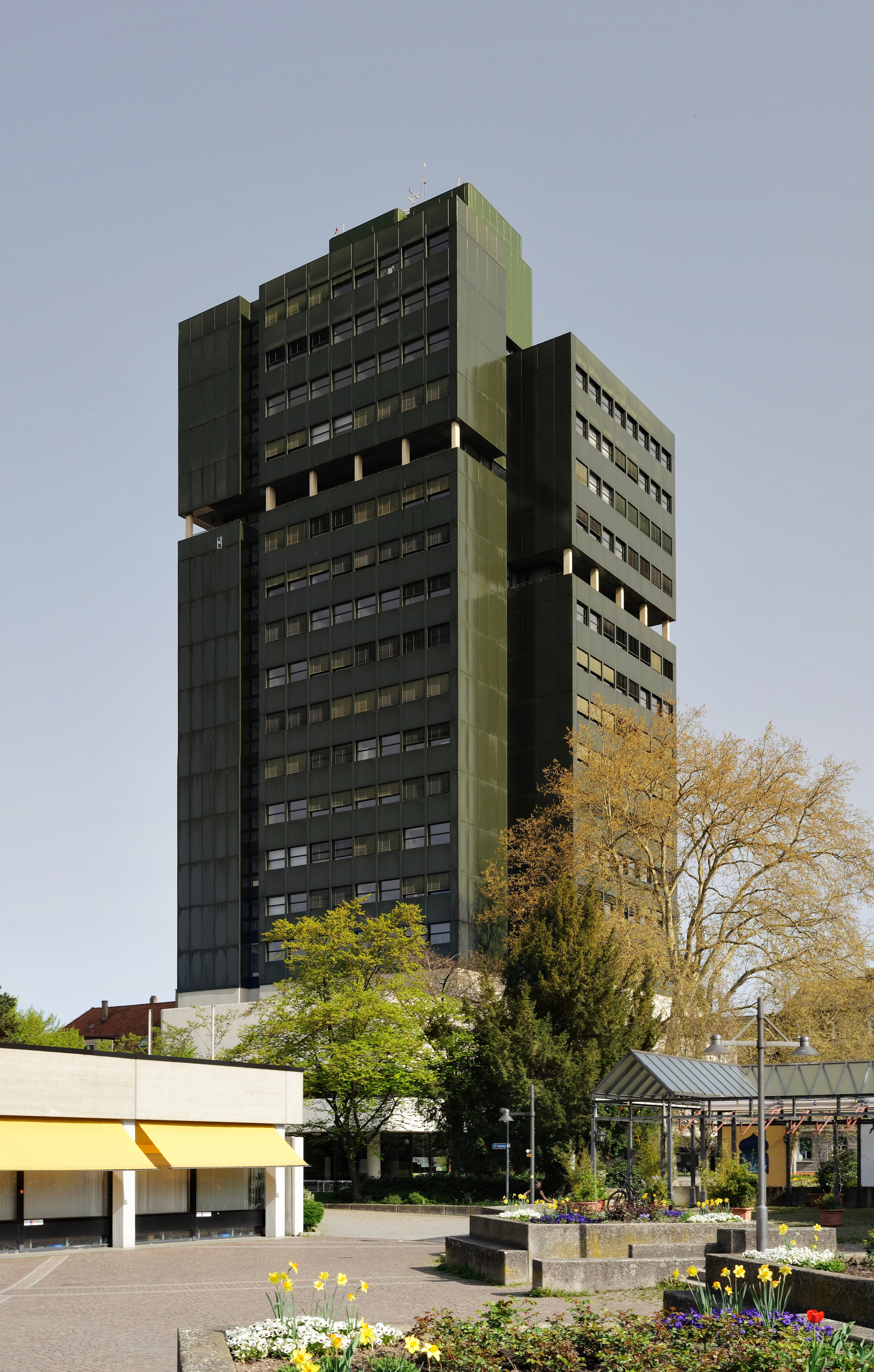 Lörrach: City Hall, view from southeast